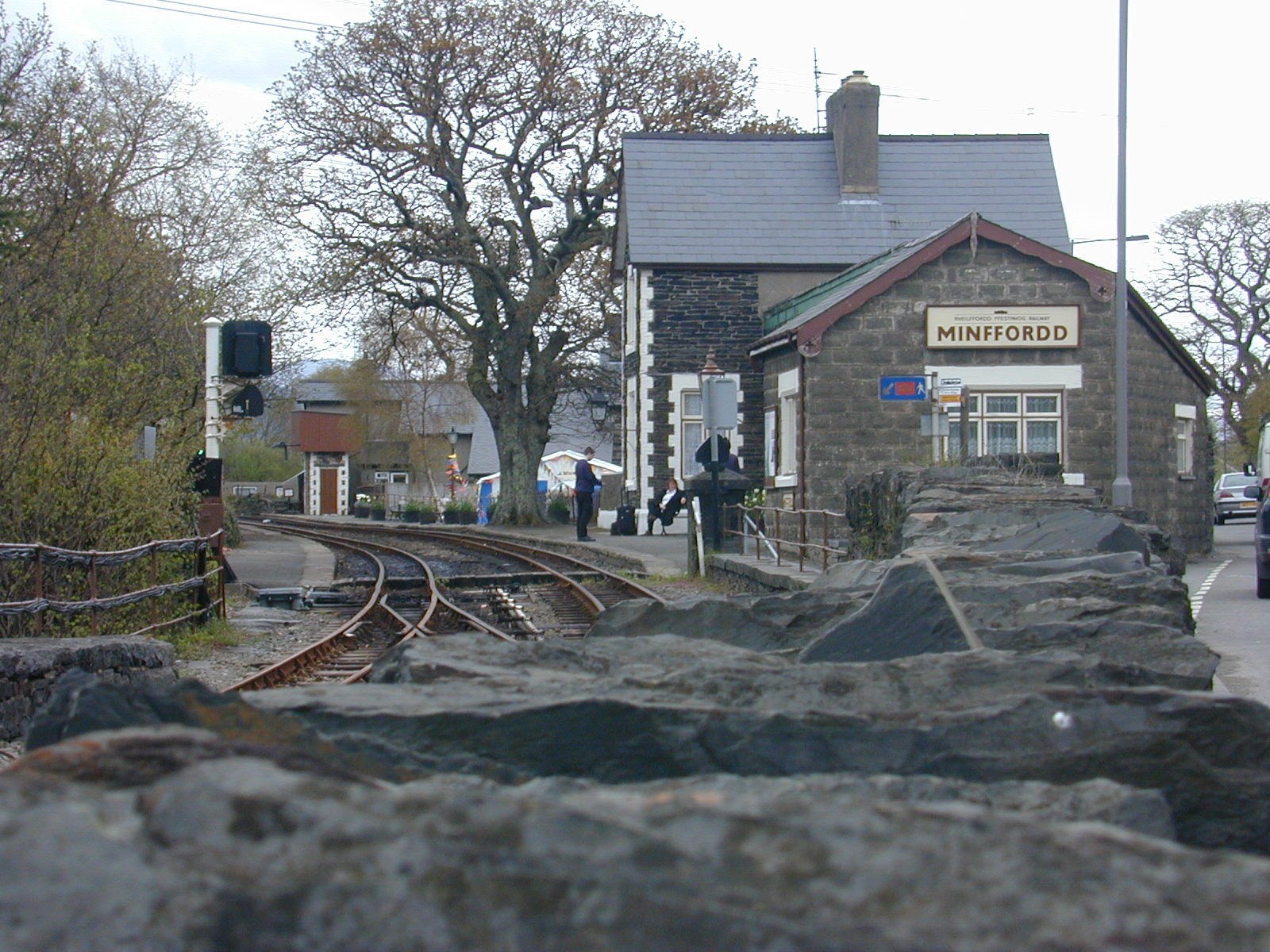 The Ffestiniog Railway at the upper level of Minffordd station